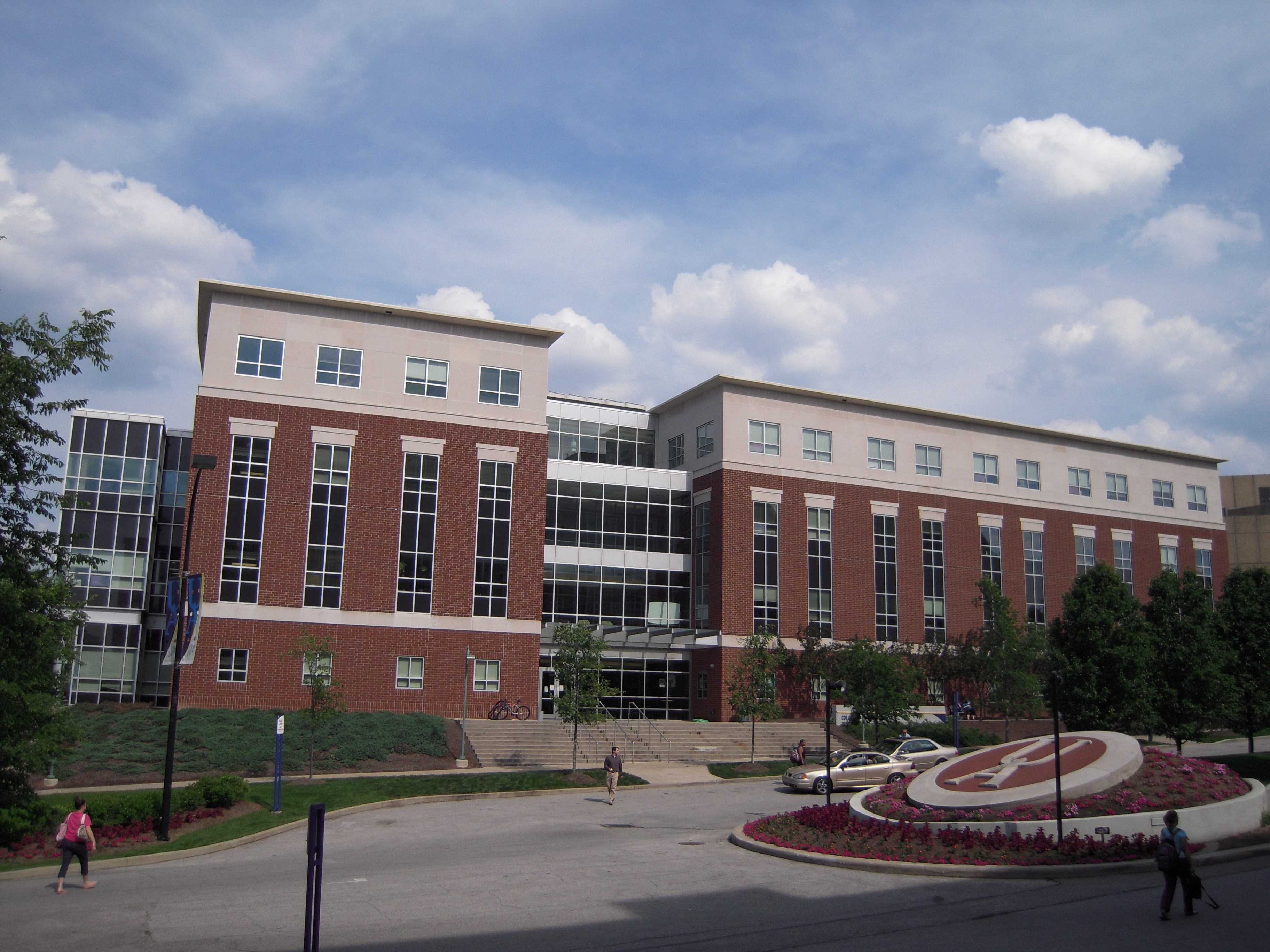 Image of the Buchtel College of Arts and Sciences at the University of Akron.